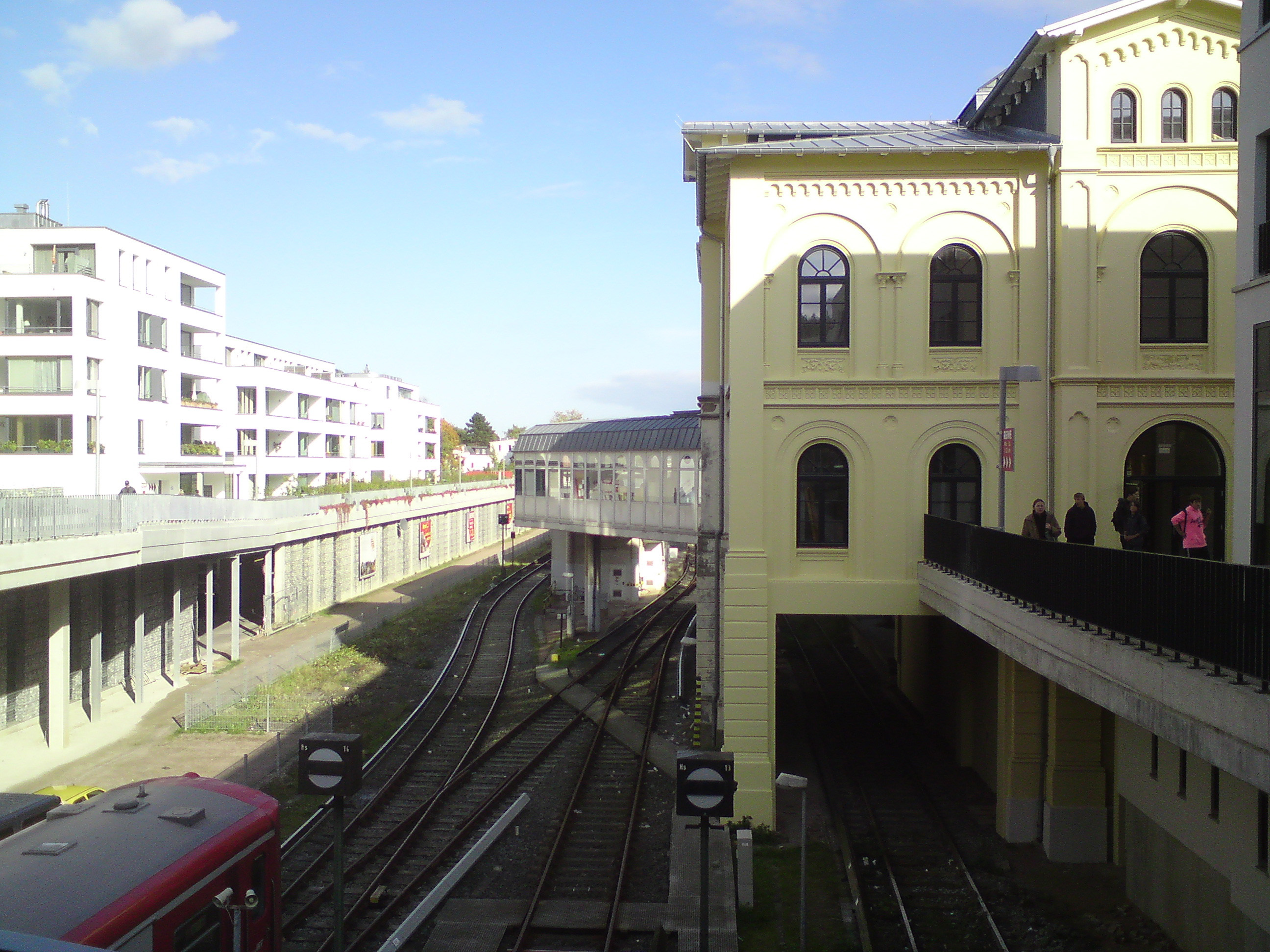 Railway station Blankenese in Hamburg, Germany